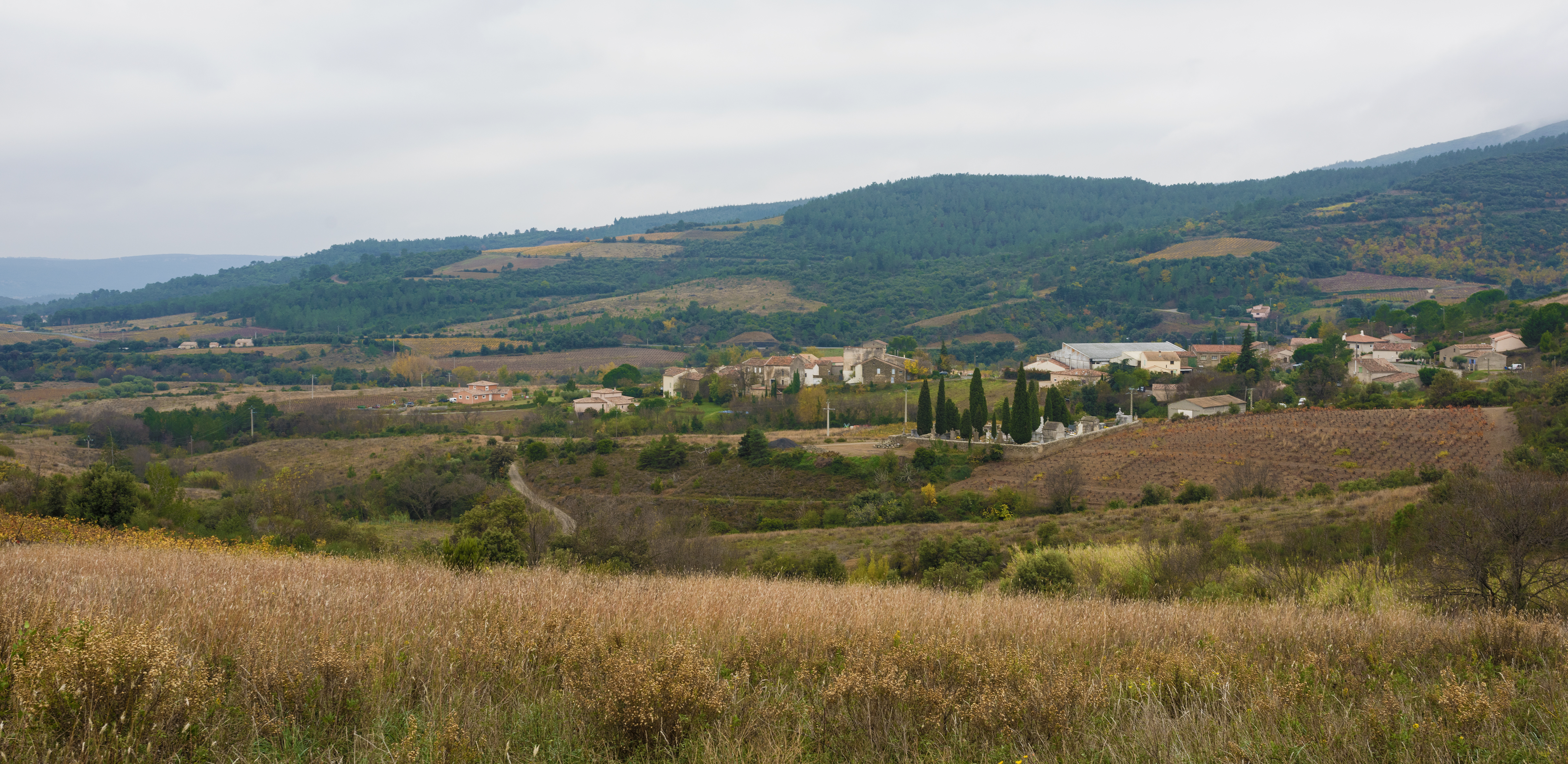 The village of Berlou, Hérault, France.